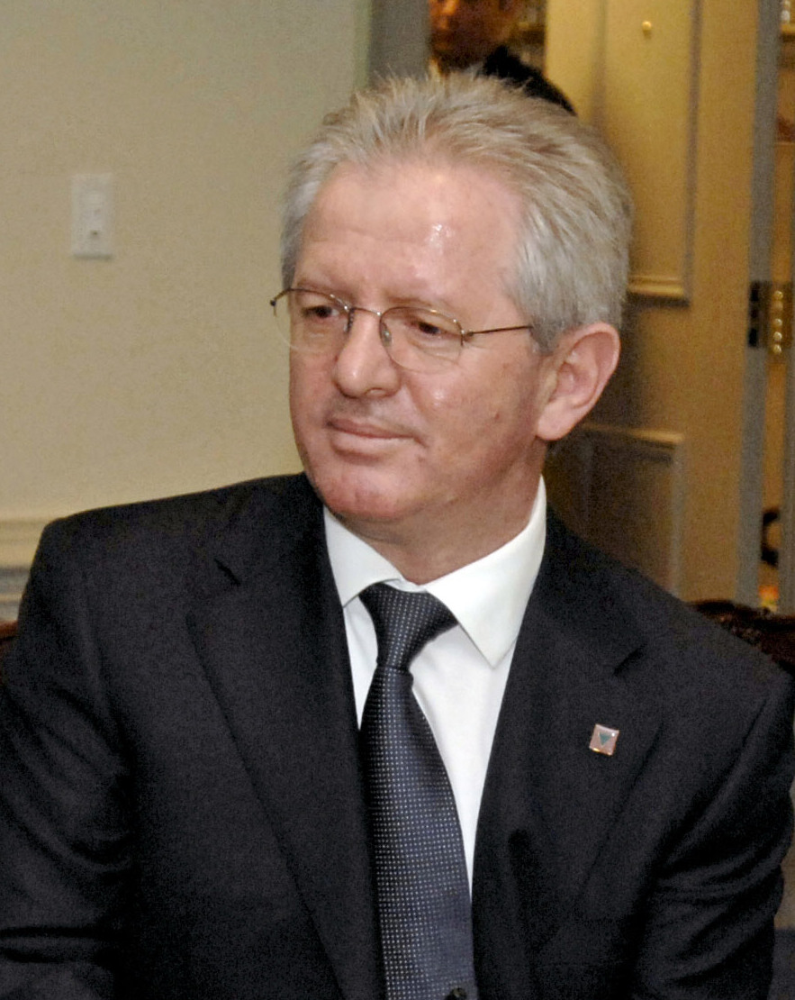 Skender Hyseni during a meeting with Kosovar President Fatmir Sejdiu and Secretary of Defense Robert M. Gates (not shown) in the Pentagon on July 18, 2008.